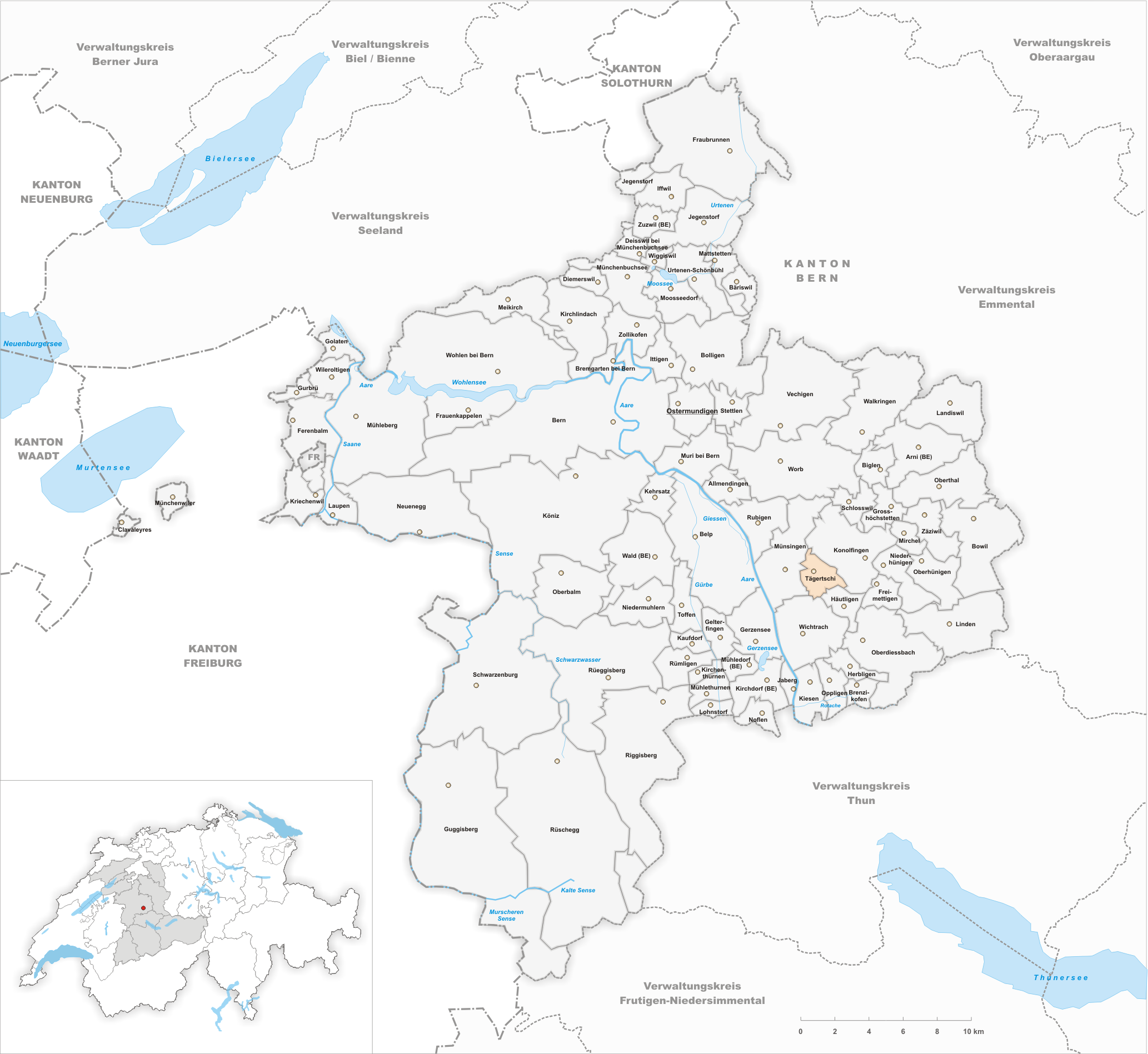 Municipality Tägertschi